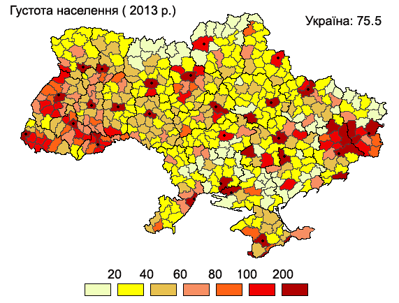 Population Density in Ukraine, 2013